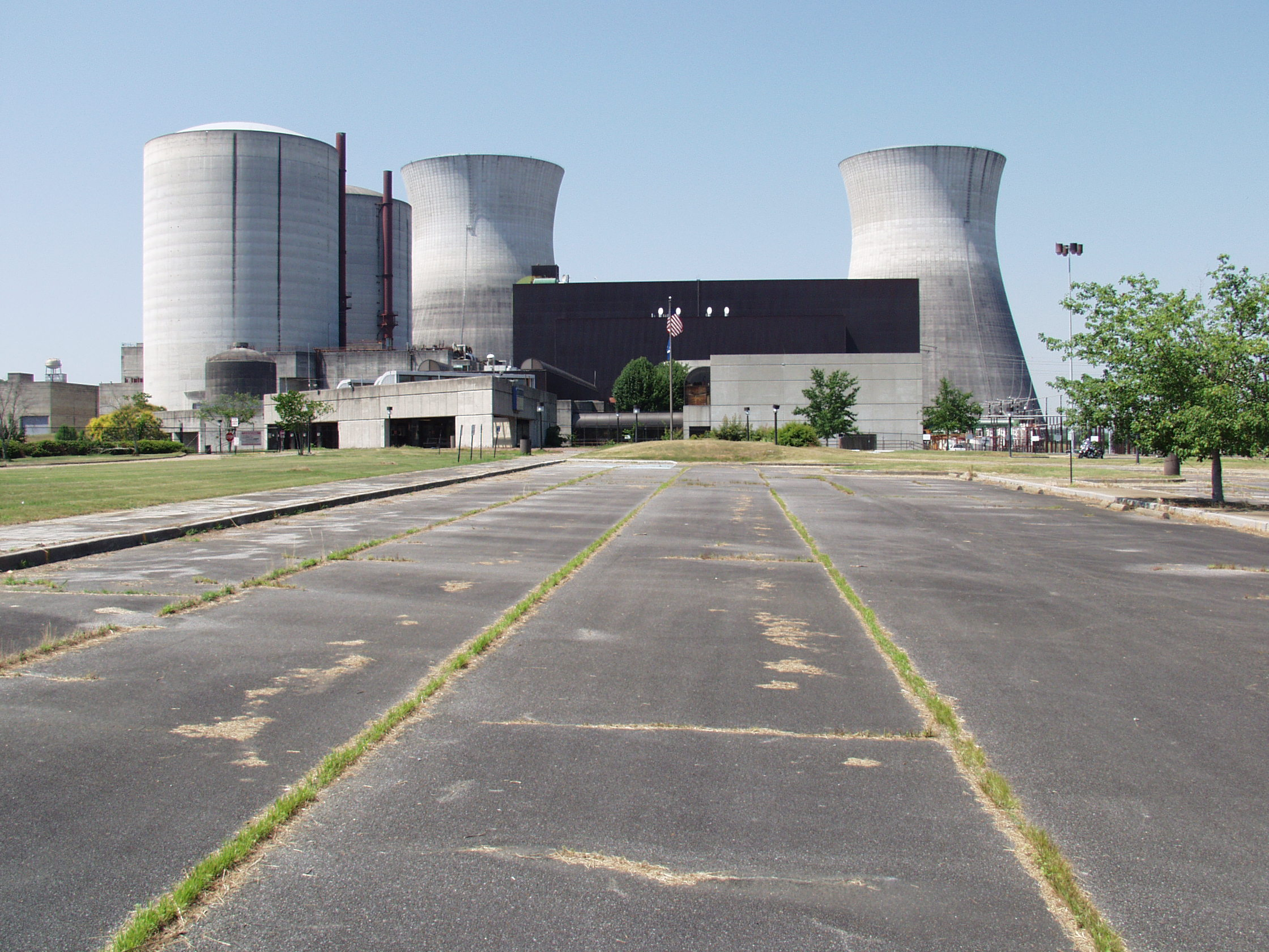 A view of the abandoned Bellefonte nuclear power plant, viewed from the overgrown parking lot.